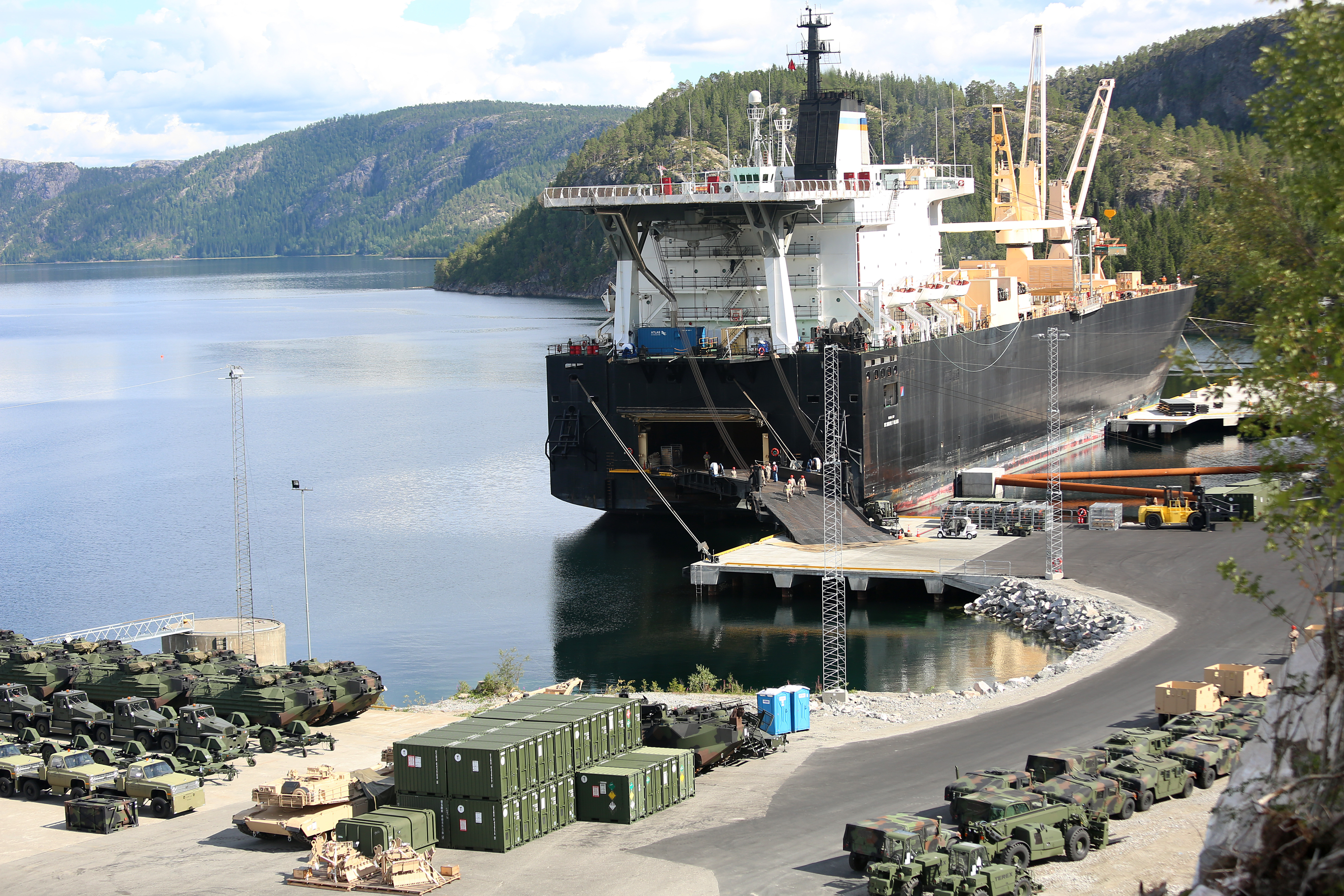 Vehicles and equipment are staged at the designated offload pier during a pre-planned Single Ship Movement and offload of military equipment from a Maritime Prepositioning Force ship in the Trøndelag region of Norway. U.S. Marines from 2nd Marine Logistics Group out of Camp Lejeune, NC, in coordination with their Norwegian counterparts, are modernizing some of the equipment currently stored within six caves as a part of the Marine Corps Prepositioning Program-Norway by placing approximately 350 containers of gear and nearly 400 pieces of heavy rolling stock into the storage caves. Specific equipment which will greatly increase the program's readiness includes M1A1 Main Battle Tanks, Tank Retrievers, Armored Breeching Vehicles, Amphibious Assault Vehicles, Expanded Capacity Vehicle (ECV) Gun Trucks and several variants of the MTVR 7-1/2 ton trucks. Planning for this equipment refresh began in the spring of 2010. Marines and contractors from Blount Island Command in Jacksonville, Fla. and Marine Corps Forces Europe and Africa are also in Norway to ensure the operation is conducted in a safe and timely manner.